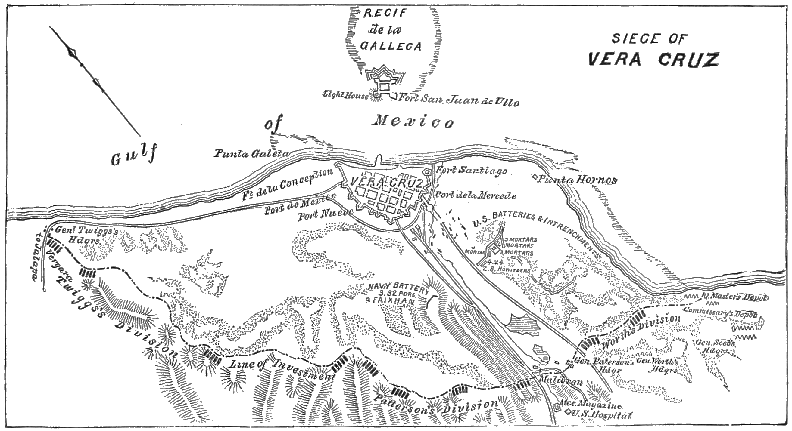 Siege of Vera Cruz